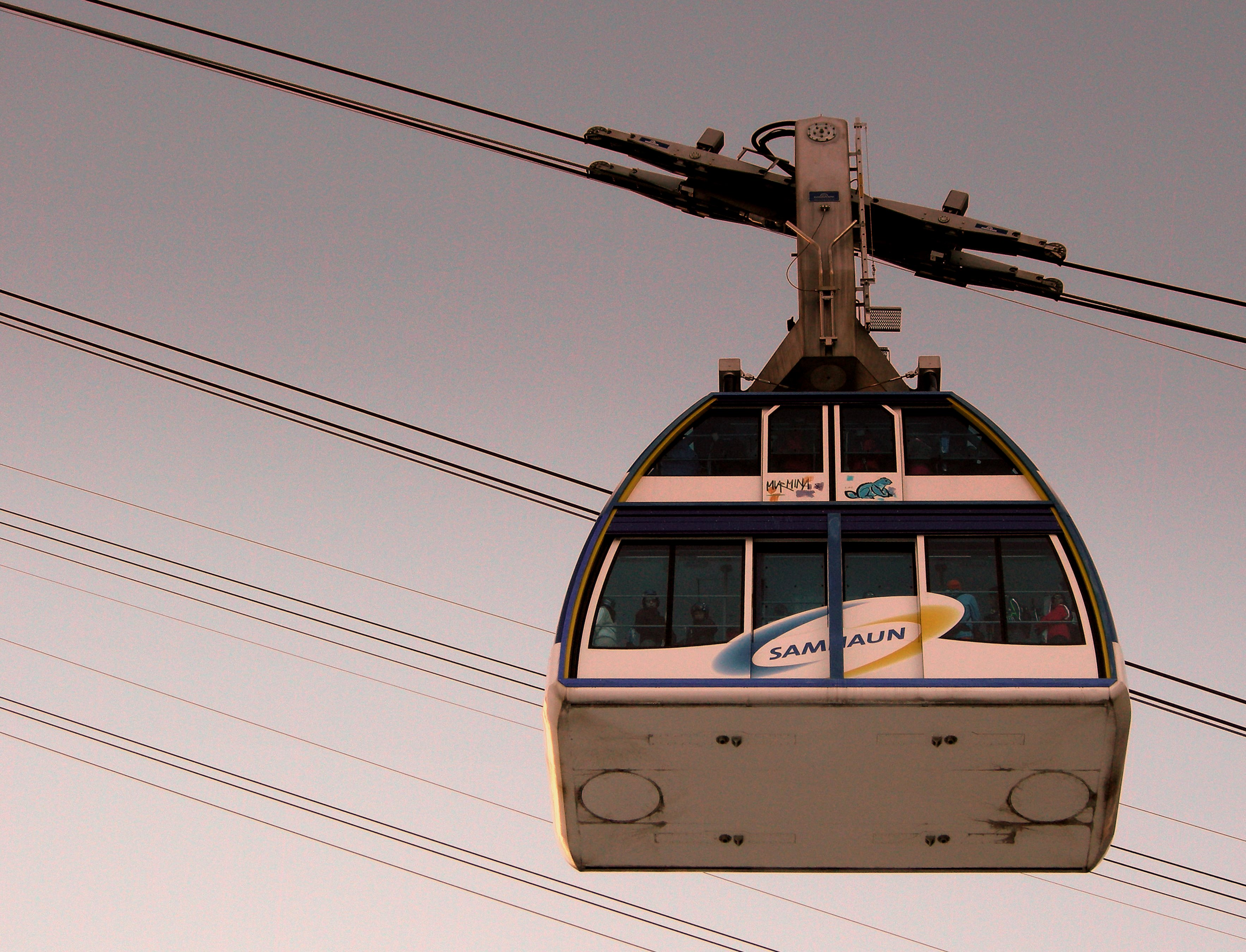 Cable car in Samnaun